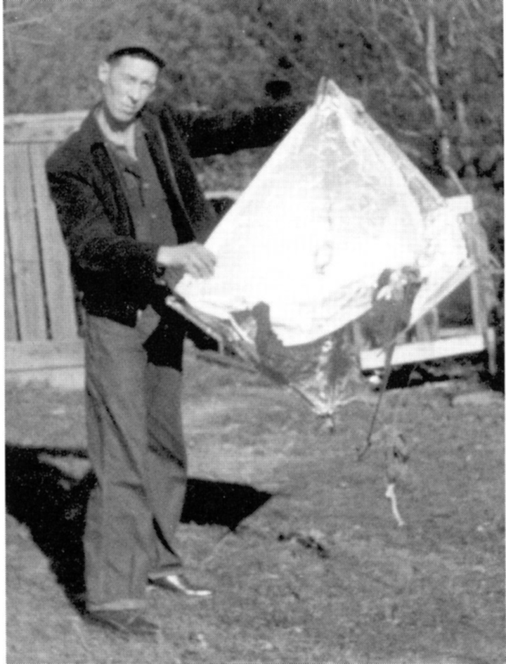 Photo by James W. Moseley. Taken in 1953.